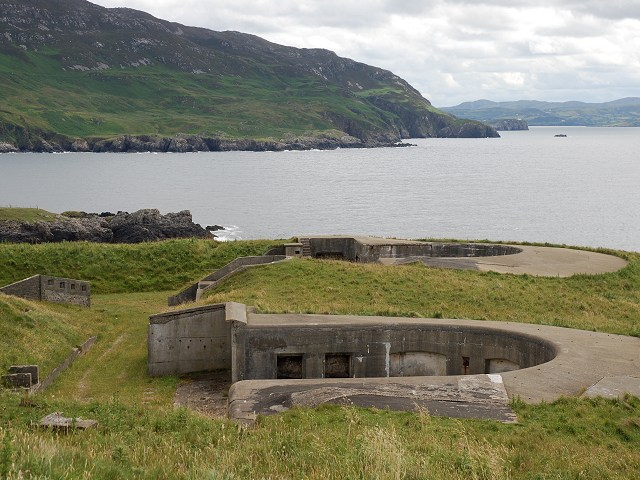 Lenan Head Fort One of a number of defensive forts built by the British to defend the deep-water anchorages of Loch Swilly. The image shows two of the three gun positions, all of which are linked by extensive underground magazines and passages in remarkably good condition. The above-ground structures are largely ruinous although the best-preserved building is, surprisingly, the squash court.